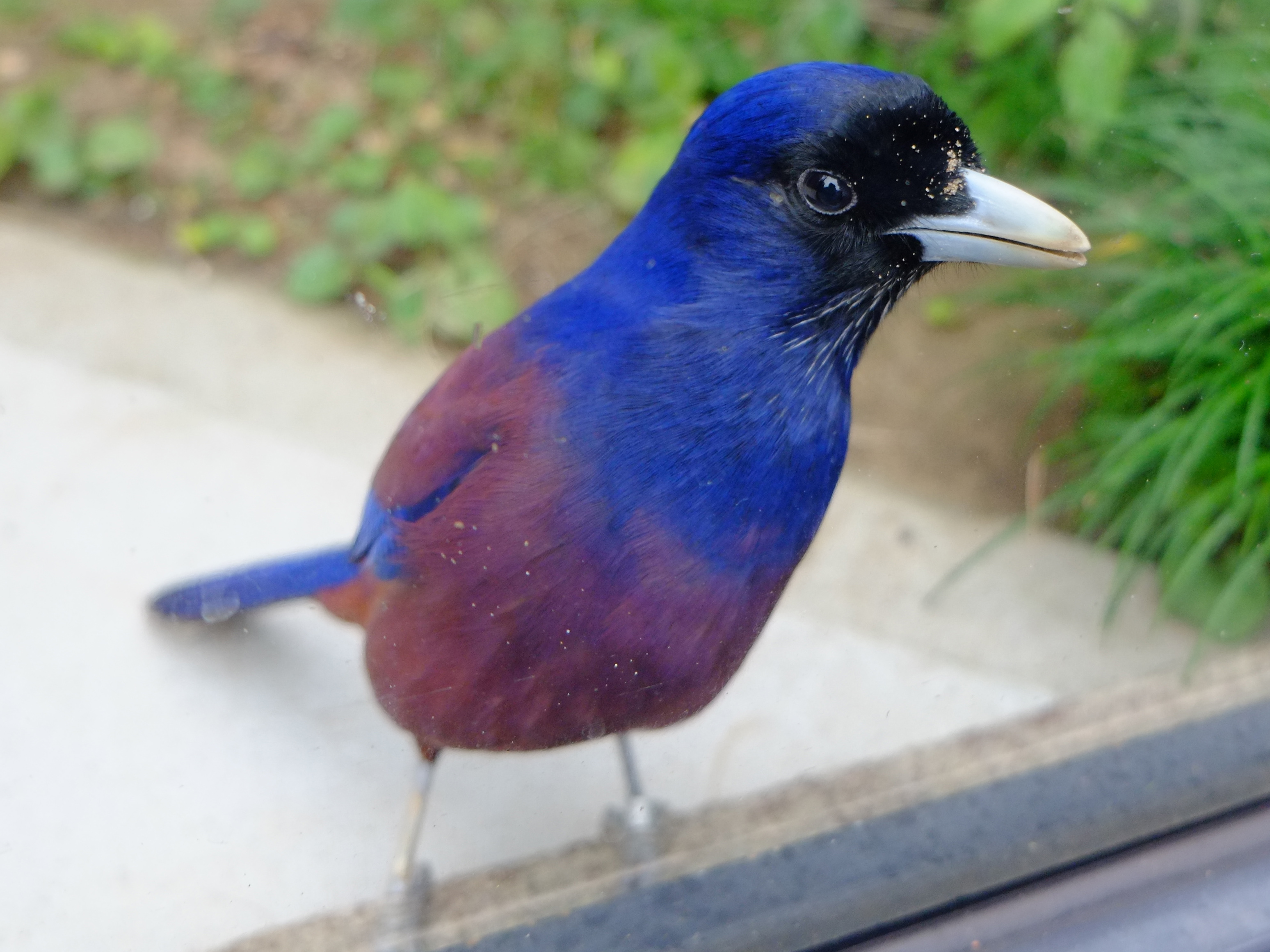 Garrulus lidthi in Ueno Zoo, Tokyo, Japan. This is a retouched picture, which means that it has been digitally altered from its original version. Modifications: Cropping. Modifications made by Batholith.